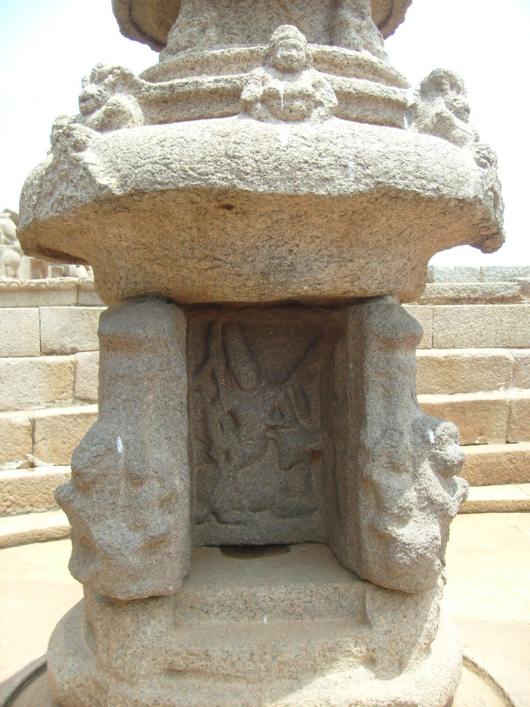 Miniature shrine dedicate to the Hindu god Shiva within the Shore Temple complex. There is a status of bhu varaha in the background. Accidentally discovered in 1990, the miniature shrine and bhu varaha were constructed during the time of Narasimhavarman I while the well was constructed during the time of Narasimhavarman II